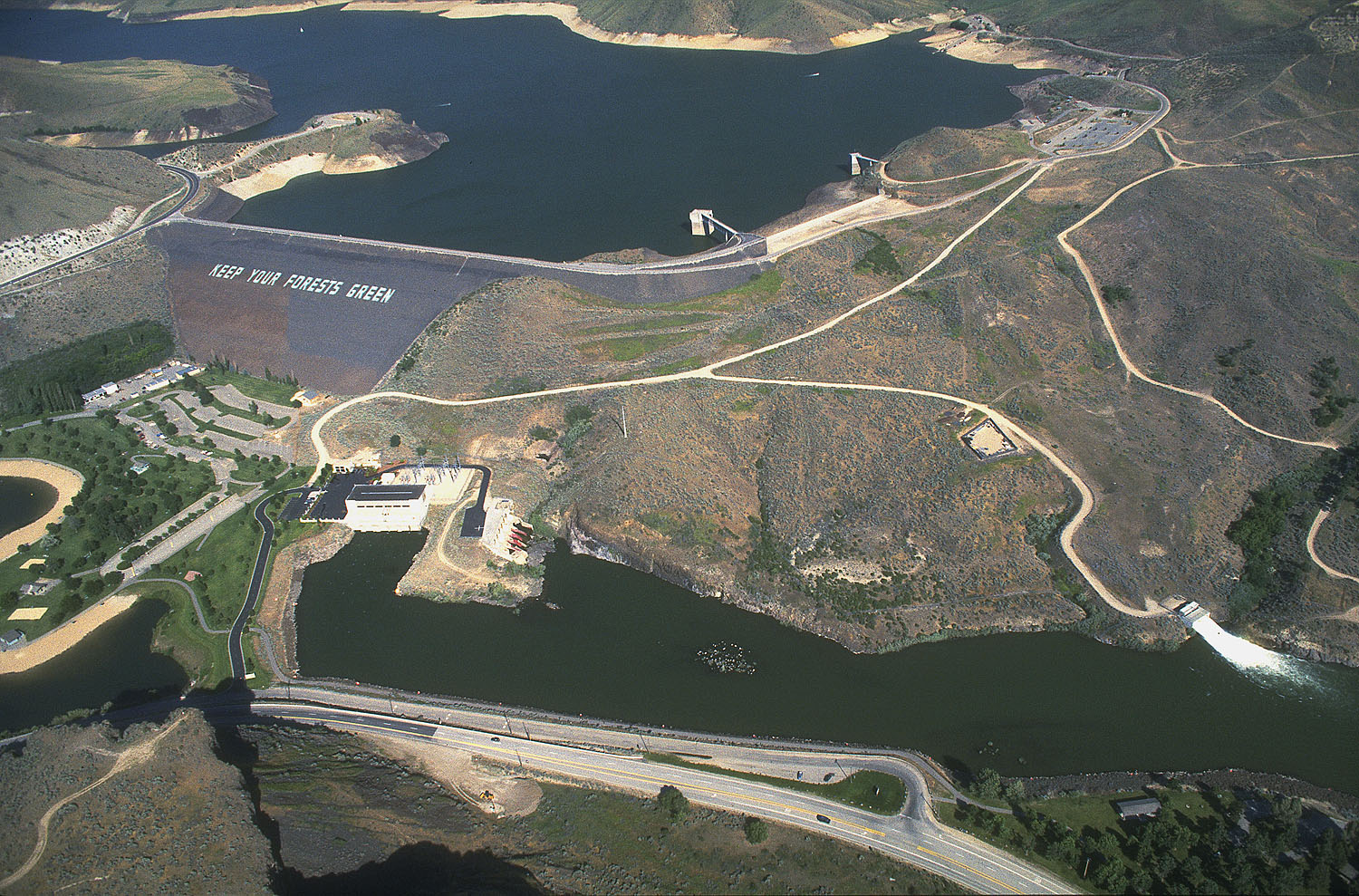 Lucky Peak Dam on the Boise River, about 10 miles southeast of Boise, Idaho, USA.